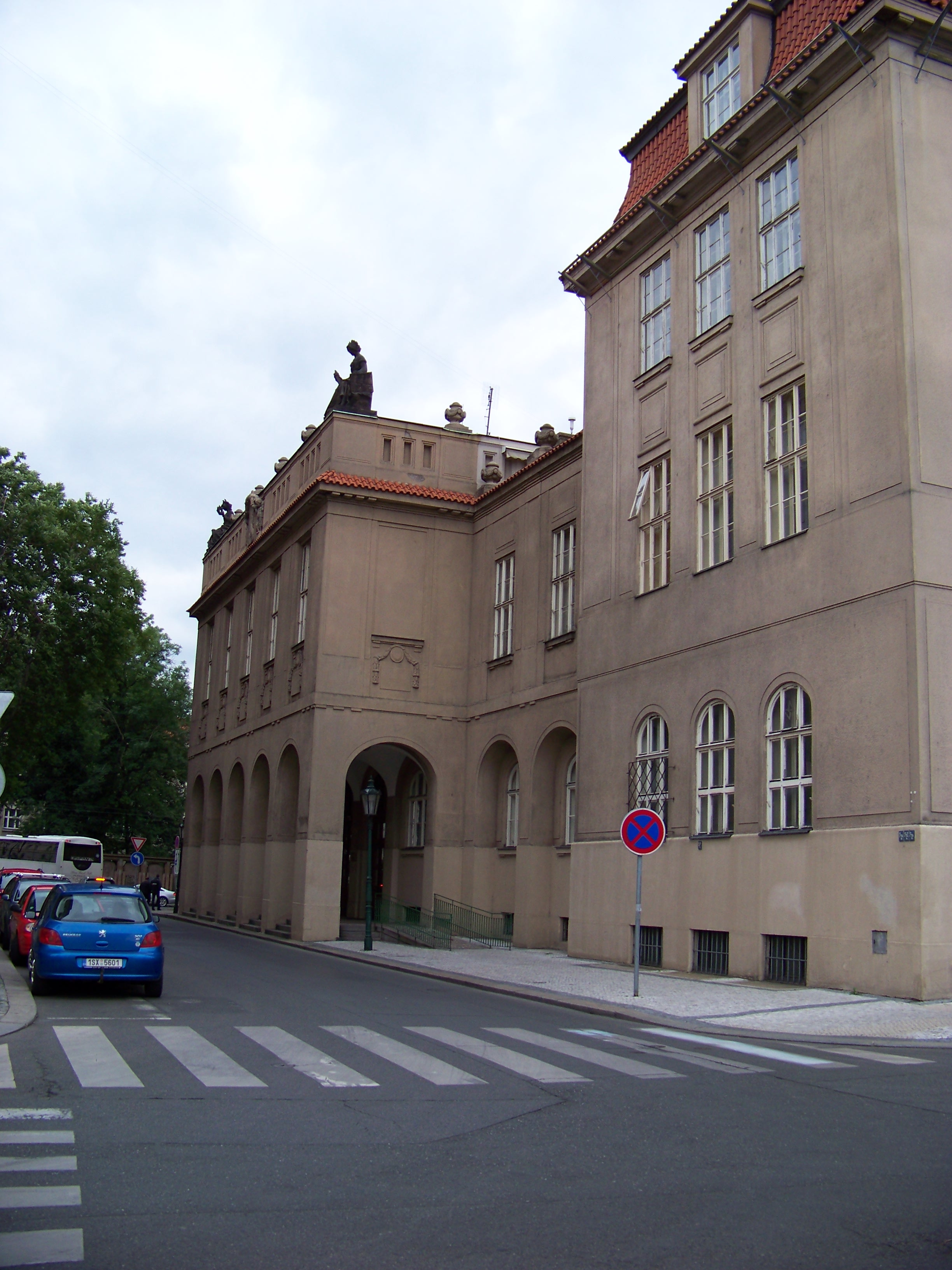 Prague-Old Town, the Czech Republic. Břehová street.